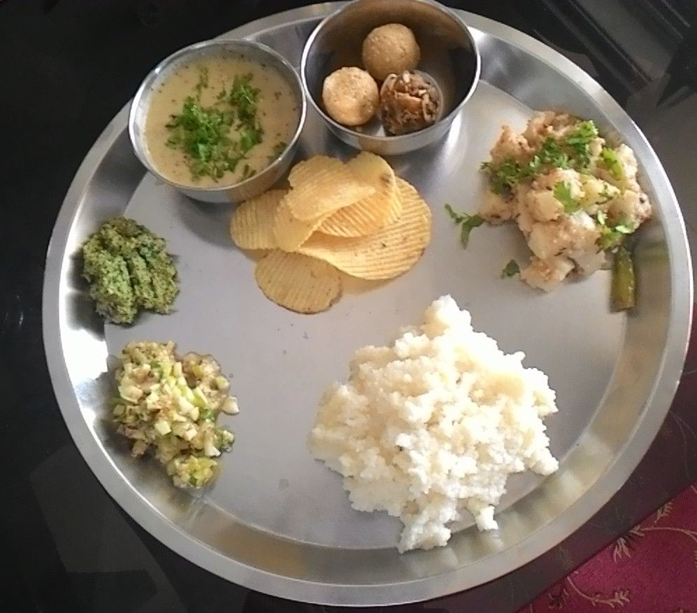 typical lunch eaten on an important fasting day like Aashadhi Ekadashi in Maharashtra....read more about the day here